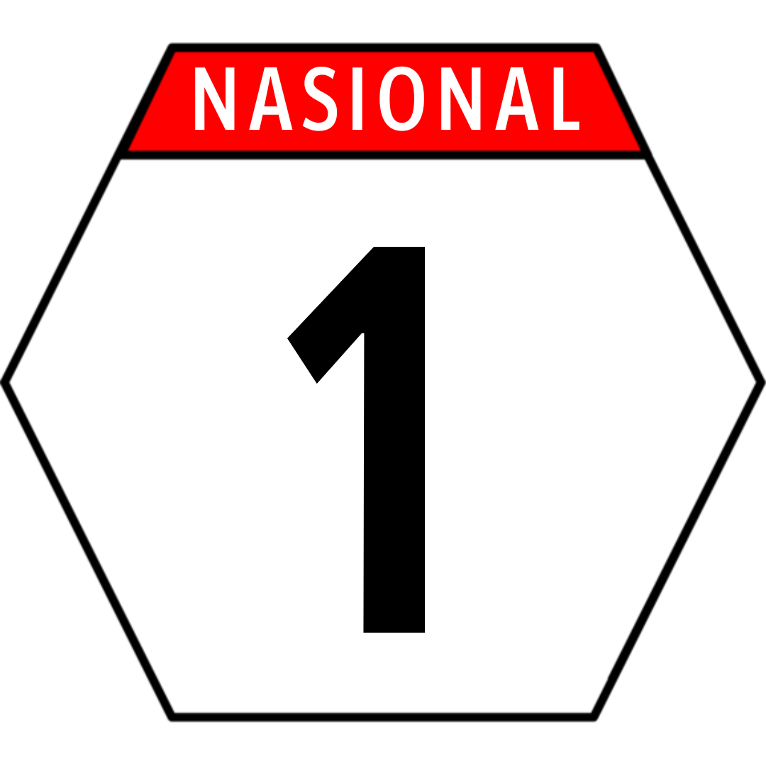 The road sign for Indonesia's National Highway Track 1